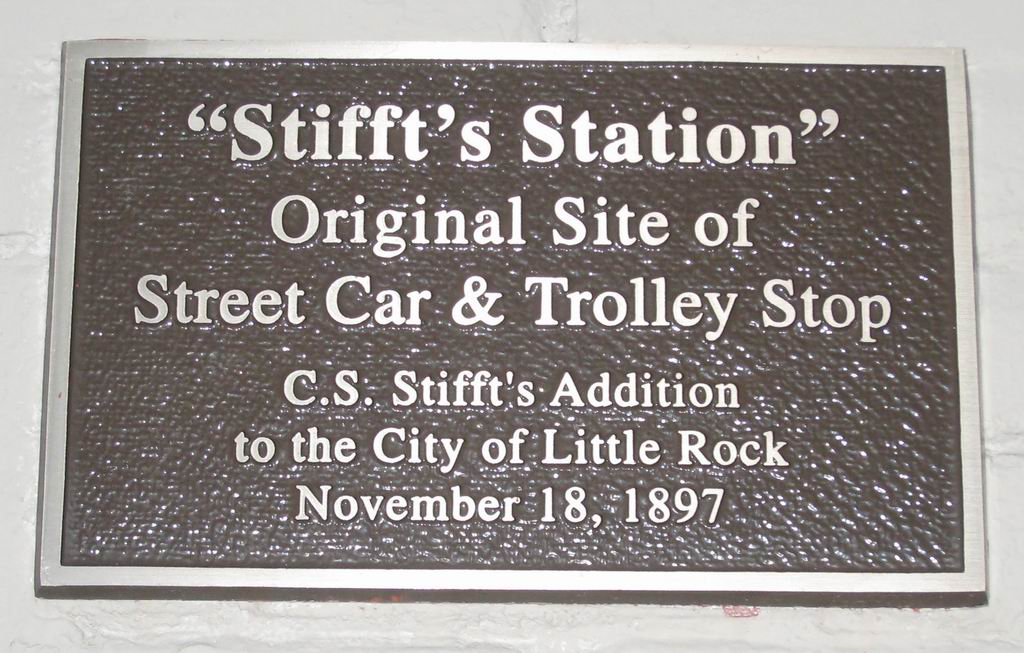 This sign near the intersection of Markham and Kavanaugh marks the original site of Stifft's Station street and trolly car stop.